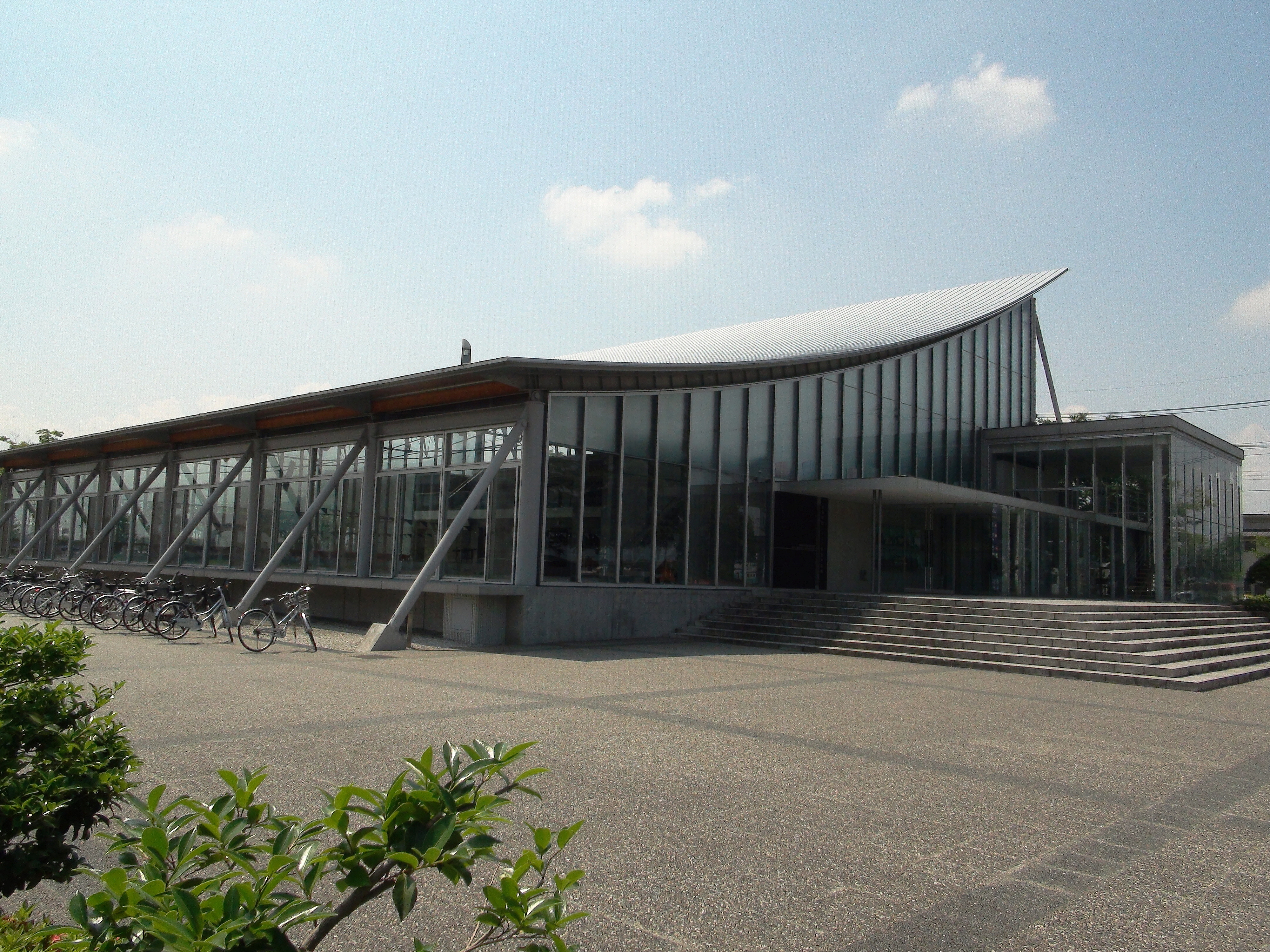 Yamanashi Gakuin University Sydney memorial swimming pool